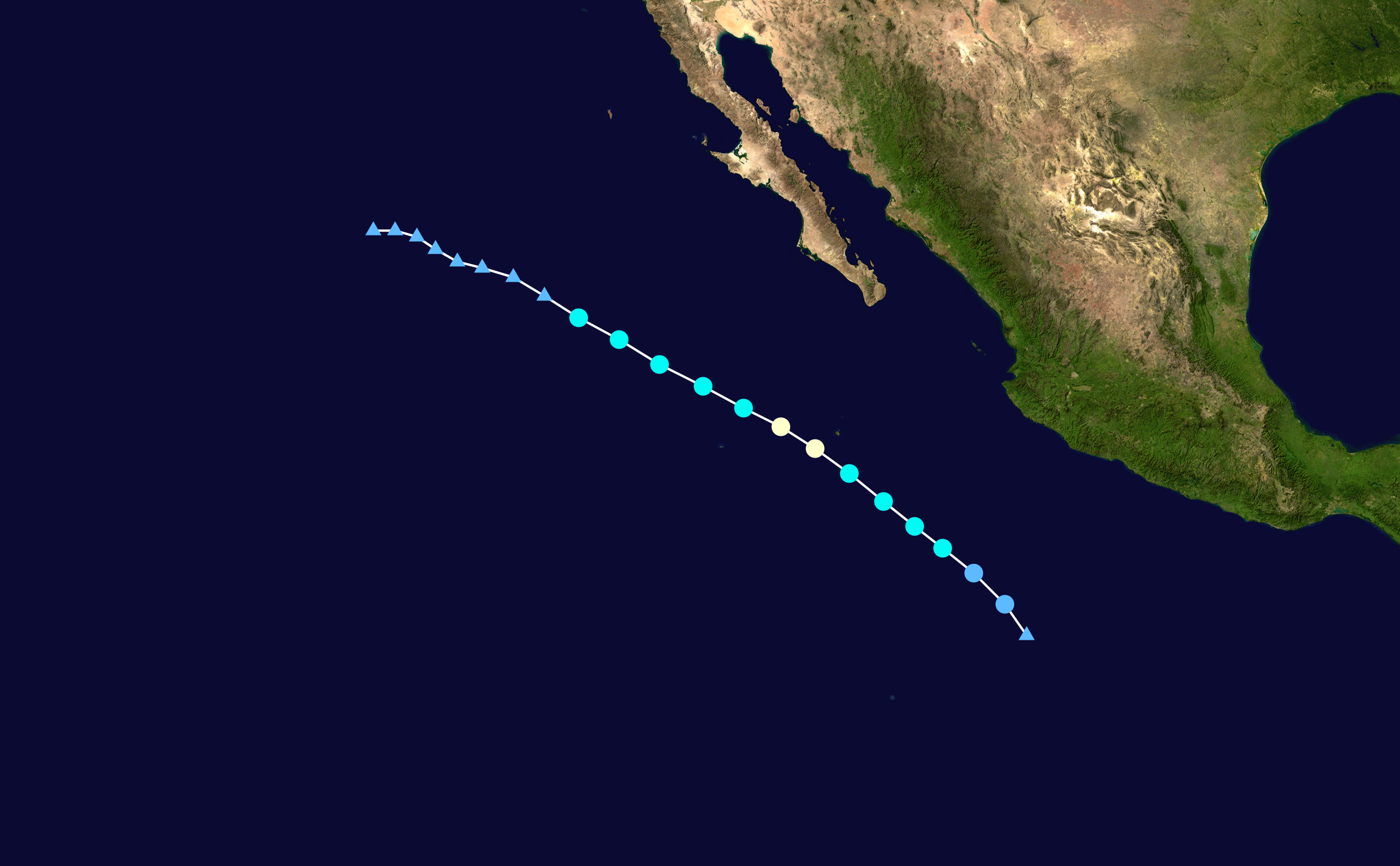 Track map of Hurricane Hernan of the 2014 Pacific hurricane season. The points show the location of the storm at 6-hour intervals. The colour represents the storm's maximum sustained wind speeds as classified in the Saffir–Simpson scale (see below), and the shape of the data points represent the nature of the storm, according to the legend below. Saffir–Simpson scale Tropical depression≤38 mph≤62 km/h Category 3111–129 mph178–208 km/h Tropical storm39–73 mph63–118 km/h Category 4130–156 mph209–251 km/h Category 174–95 mph119–153 km/h Category 5≥157 mph≥252 km/h Category 296–110 mph154–177 km/h Unknown Storm type Tropical cyclone Subtropical cyclone Extratropical cyclone / Remnant low / Tropical disturbance / Monsoon depression